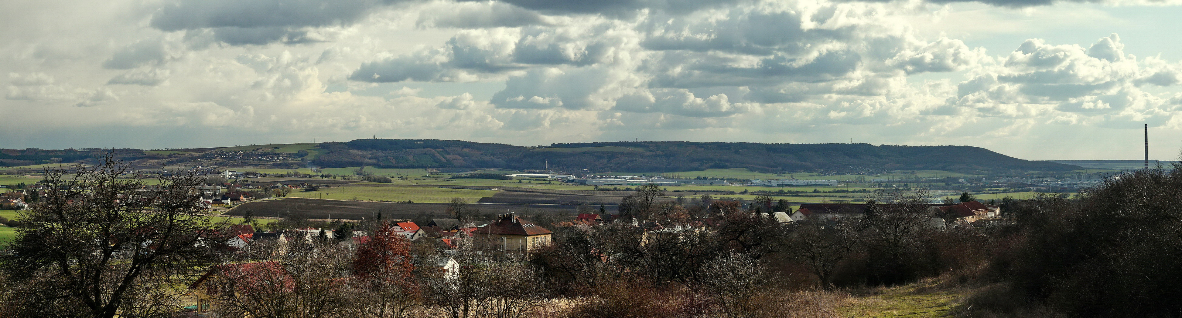 Chloumecky ridge from Baba